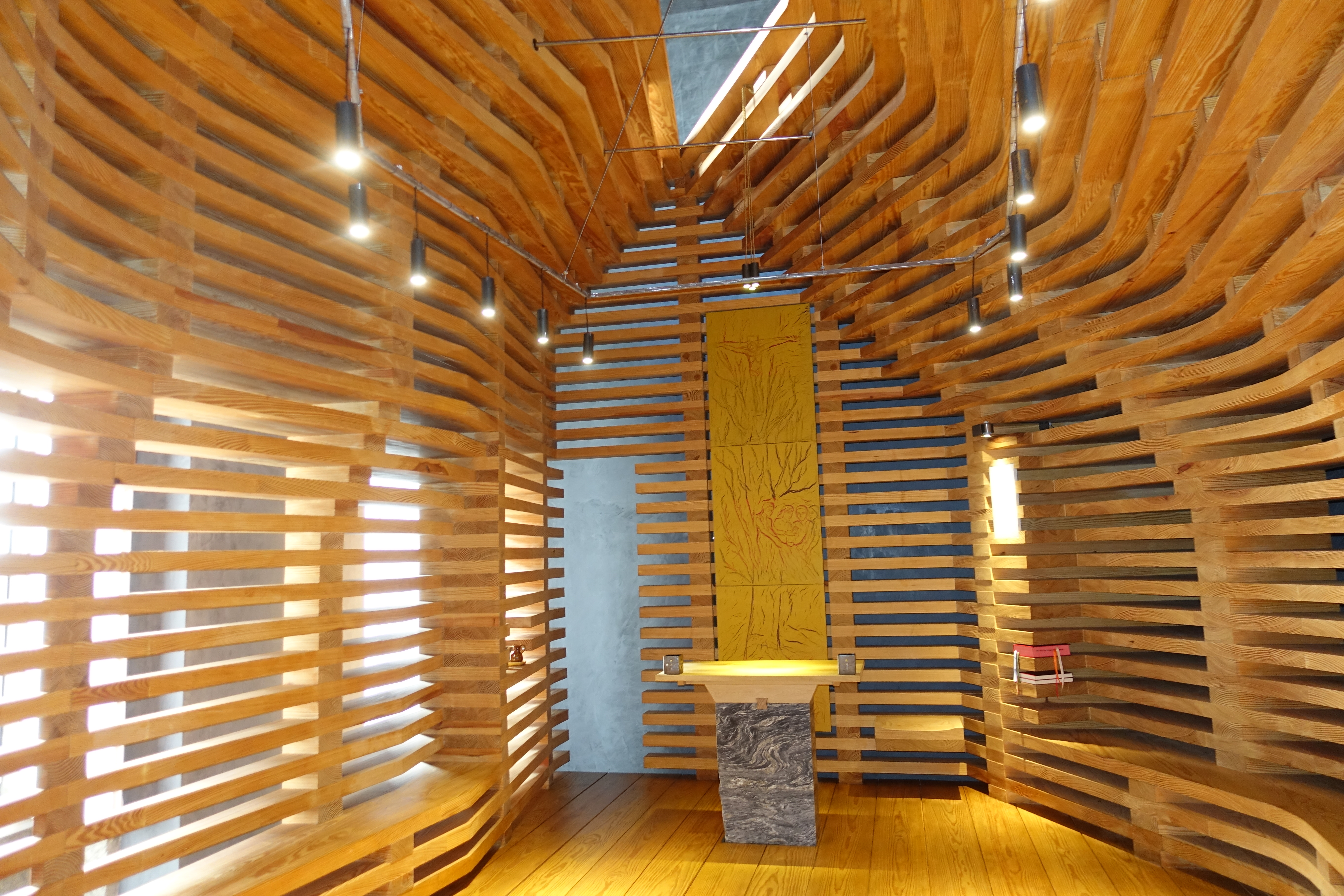 Tree of Life Chapel in Braga, Portugal.